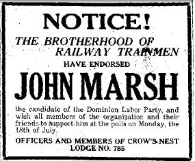 This is a historical advertisement showing an endorsement for Dominion Labor Party candidate John Marsh from the July 1921 Alberta general election. This was scanned from the July 15, 1921 edition of the Lethbridge Herald